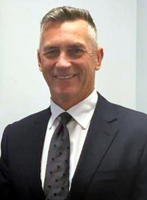 Australian High Commissioner Ewen McDonald had the pleasure to meet New Zealand Police Police Commissioner Mike Bush this afternoon. Commissioner Bush and and Ewen had a very wide ranging discussion covering our work supporting women in leadership and White Ribbon & White Ribbon New Zealand. We also talked about the close relationship between the Australian Federal Police and the New Zealand Police and the joint work we do in the Pacific.